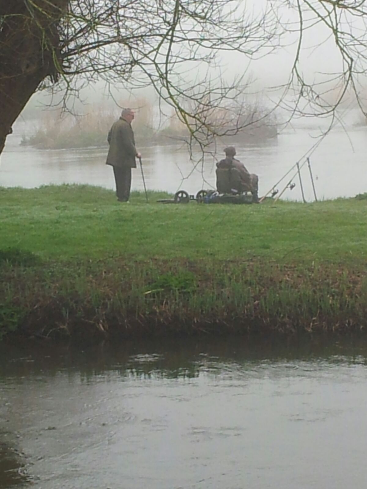 An angling scene at the Royalty fishery at the Hampshire Avon in Christchurch, Dorset in March 2017